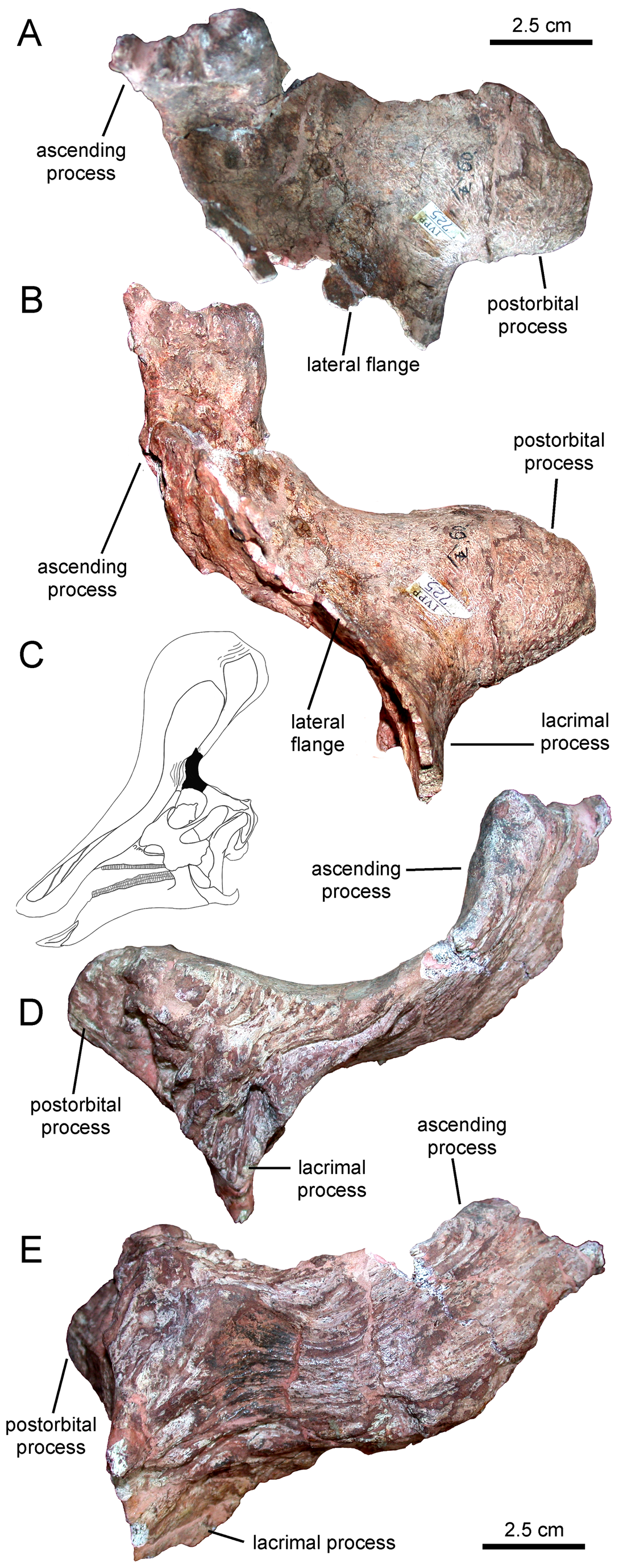 Left prefrontal of Tsintaosaurus spinorhinus (IVPP V725). Prefrontal in (A) dorsal, (B) lateral, (D) medial, and (E) medioventral views. C. Insert of our reconstruction of the skull of T. spinorhinus showing the position of the prefrontal (solid black).